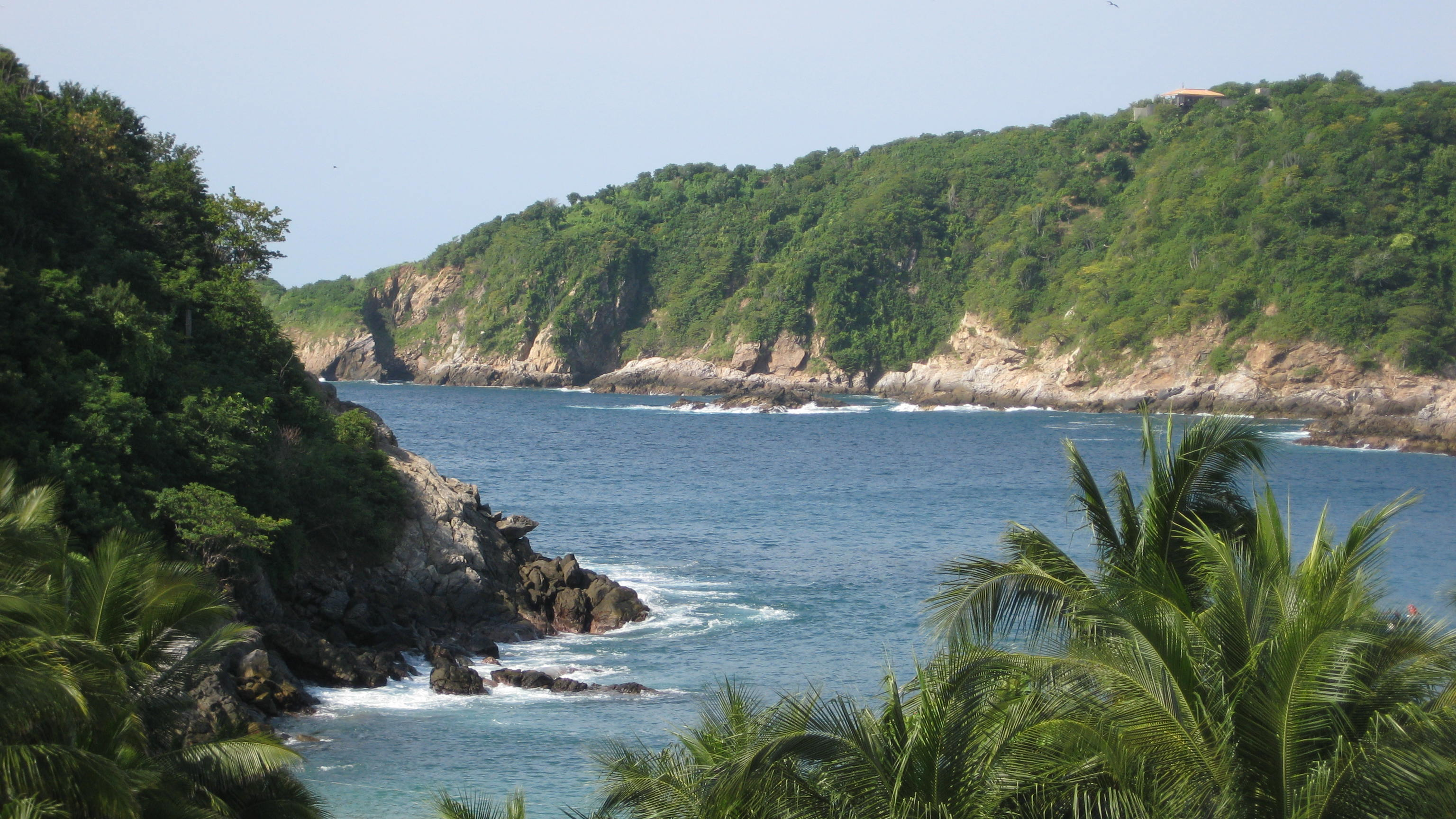 Puerto Ángel, Oaxaca, Mexico